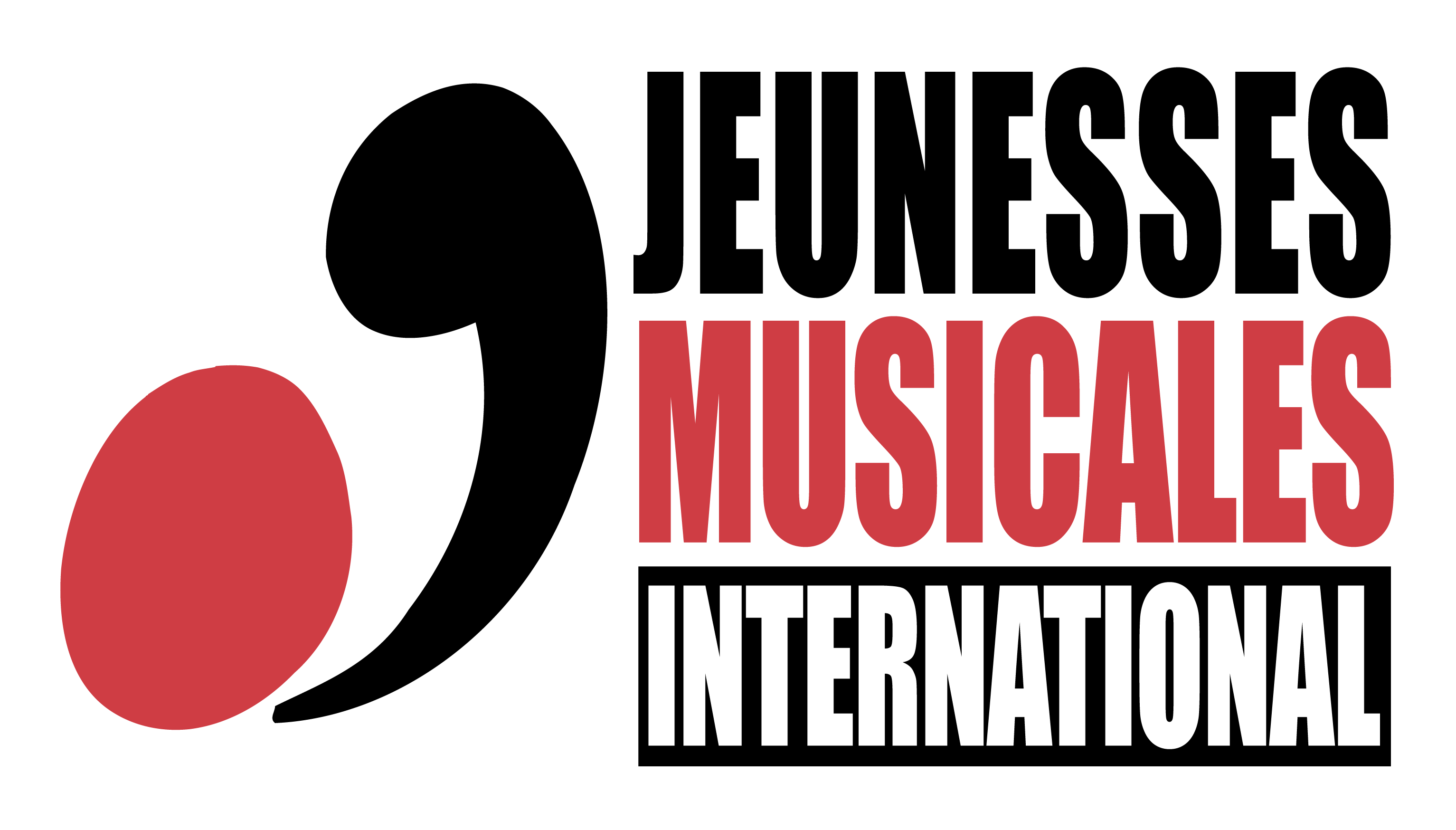 the logo adopted at the JMI Annual General Assembly 2005